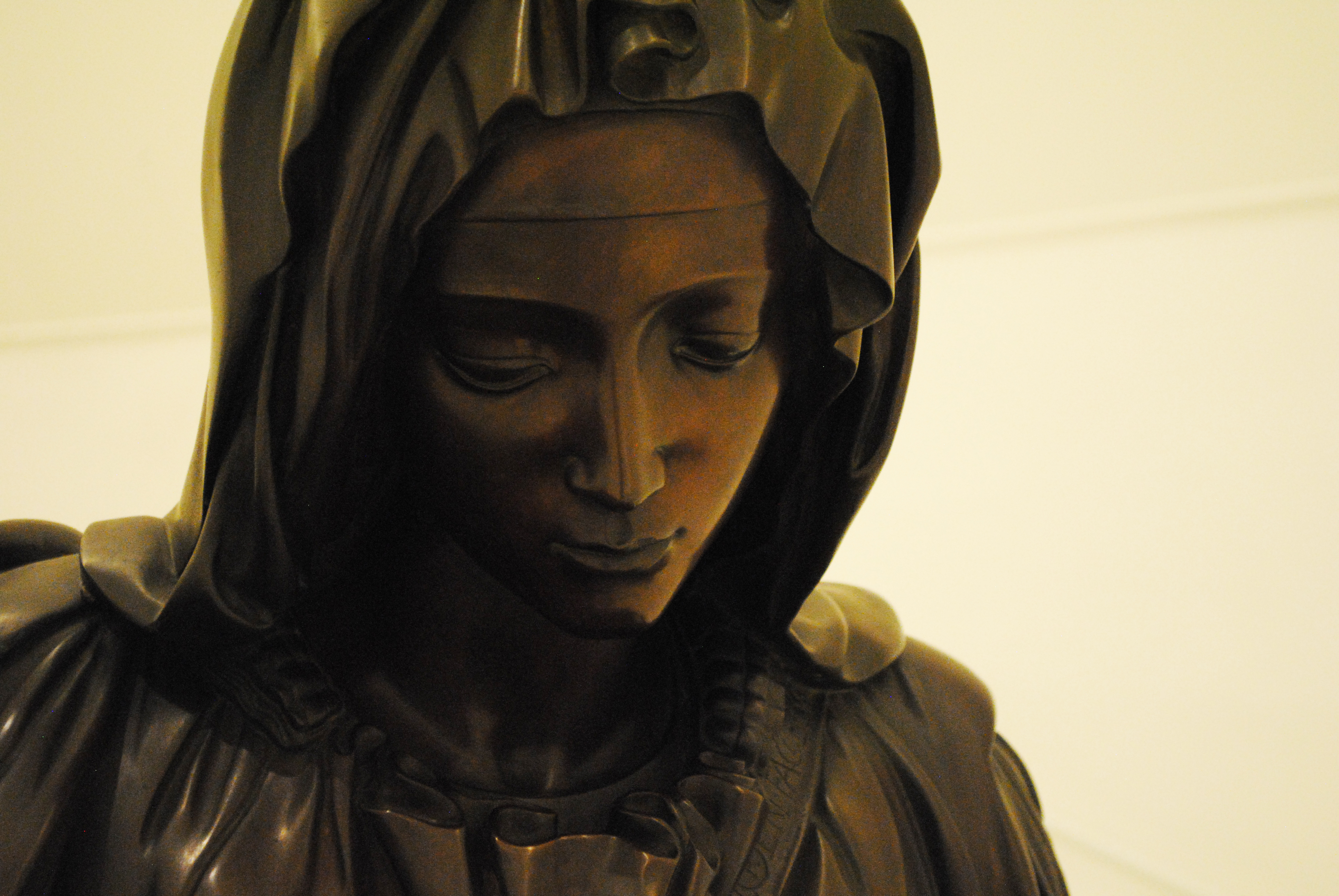 Michelangelo's Pietà in a bronze casting by Ferdinando Marinelli, 1932, certified by the Foundation Buonarotti